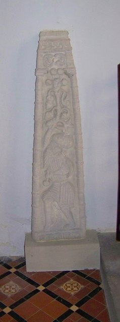 Saxon cross, St Peter's Church, Codford St Peter Against the north wall of the Sanctuary is a portion of an early Saxon Cross. The stone seems to depict midsummer festivities associated with the extensive marches which used to fill the Wylye valley. On the front is a young man with a luxuriant moustache has his clock fastened with a long pin.